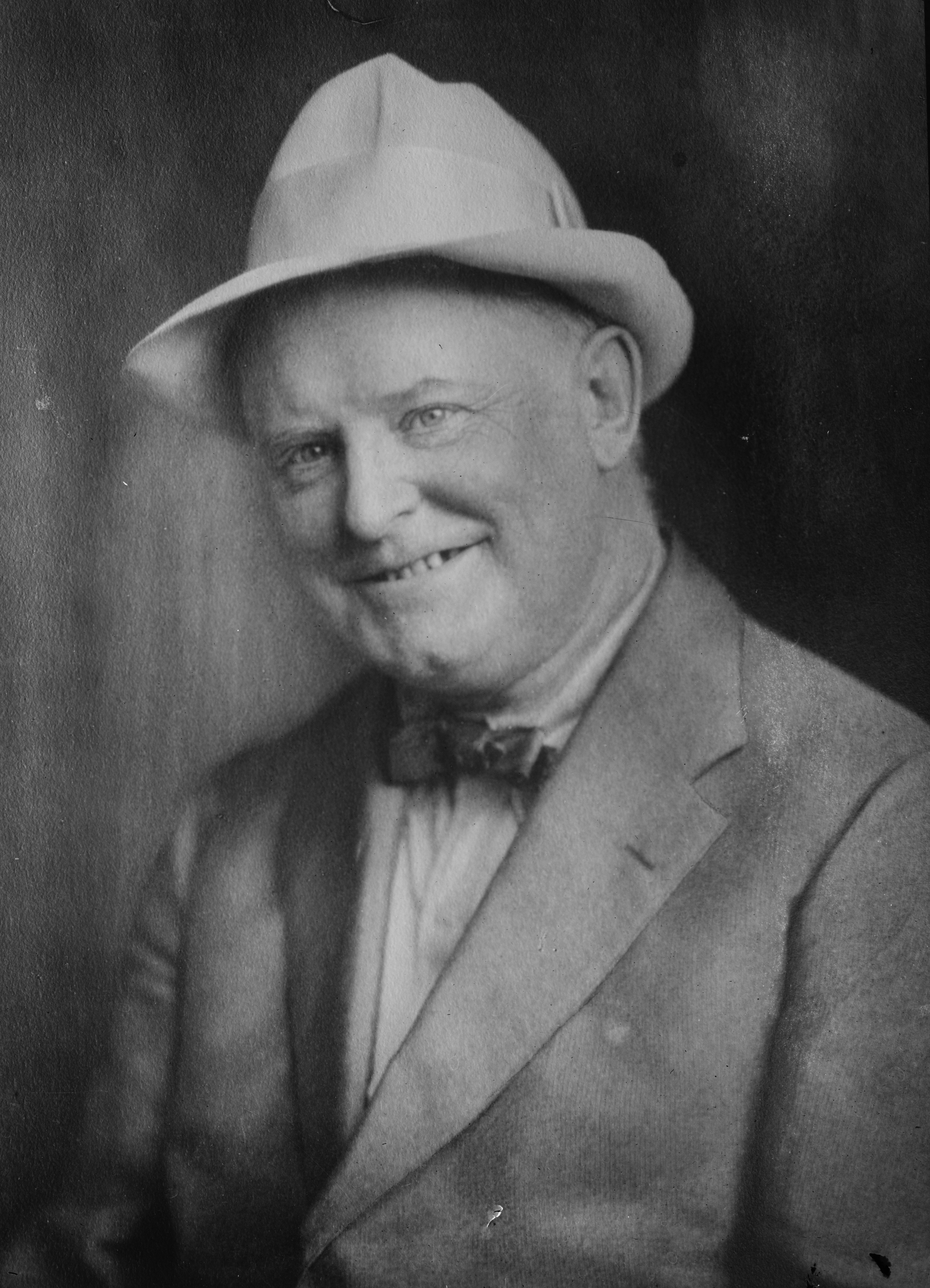 William Allen White (February 10, 1868 – January 31, 1944), renowned American newspaper editor, politician, and author.